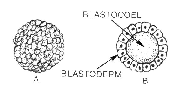 line art drawing